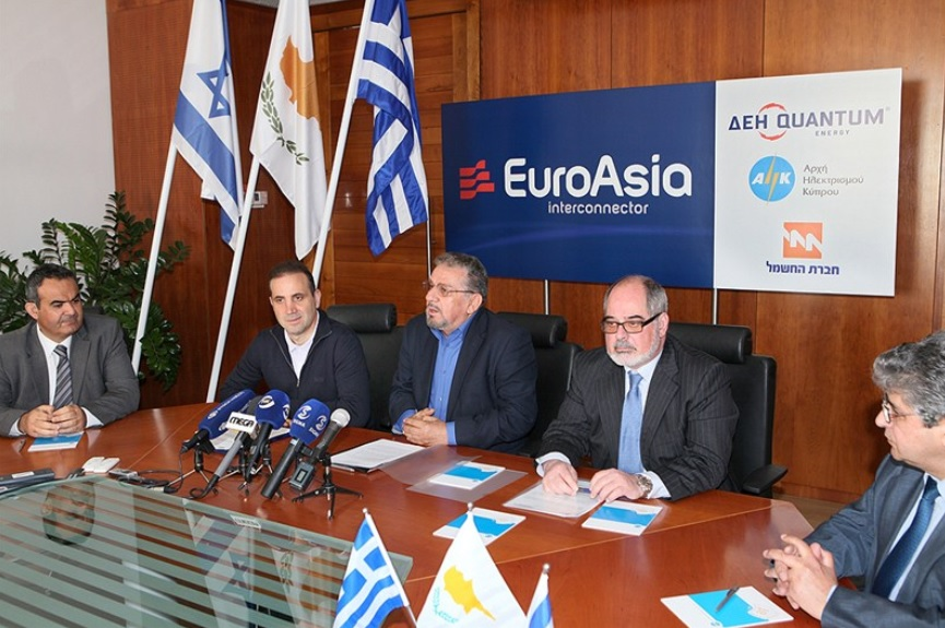 The Electricity Authority of Cyprus president, Mr. Harris Thrasou and the Director General, Dr. Stelios Stylianou, signed a cooperation agreement with Nassos Ktorides,CEO EuroAsia Interconnector